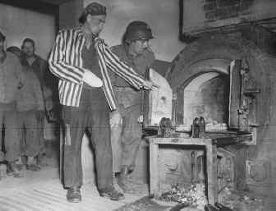 Dora : crematorium. Source US Army signal corps.